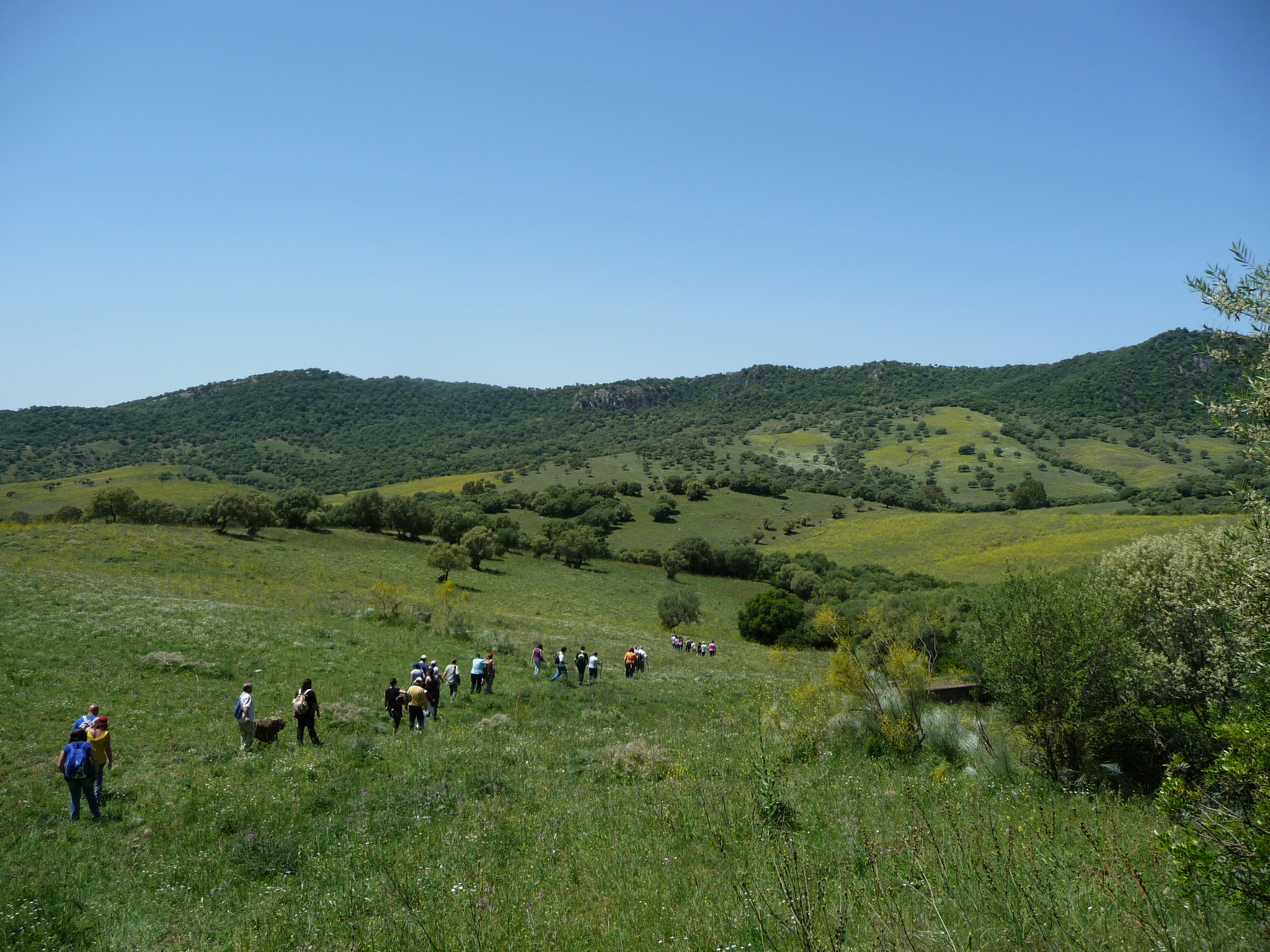 Montes de Propio de Jerez de la Frontera (Andalusia, Spain)